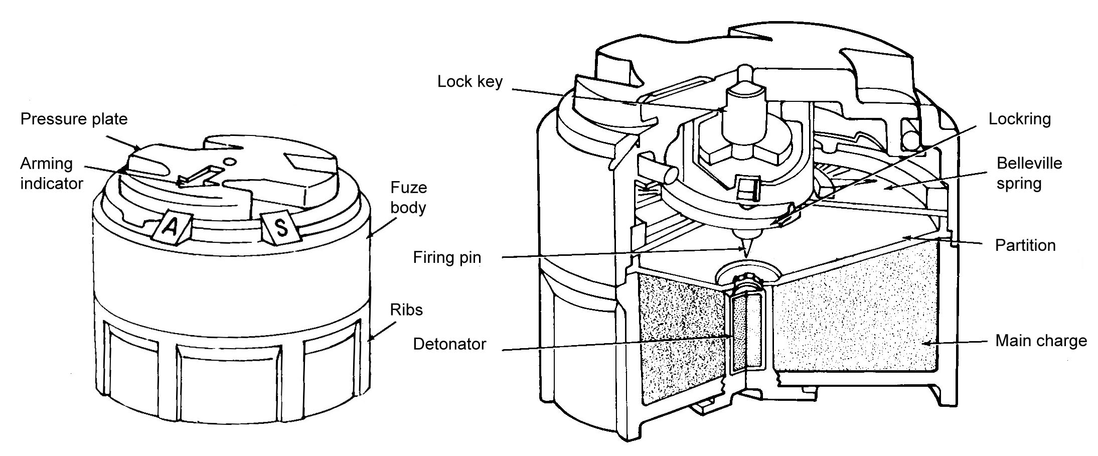 A cutaway diagram of a US M14 AP mine. The arming indicator (arrow) can point to either A(rmed) or S(afe), clearly showing the arming status of this antipersonnel landmine. This particular mine has been armed. Note that this mine measures only 56 mm (diameter) x 40 mm (height).